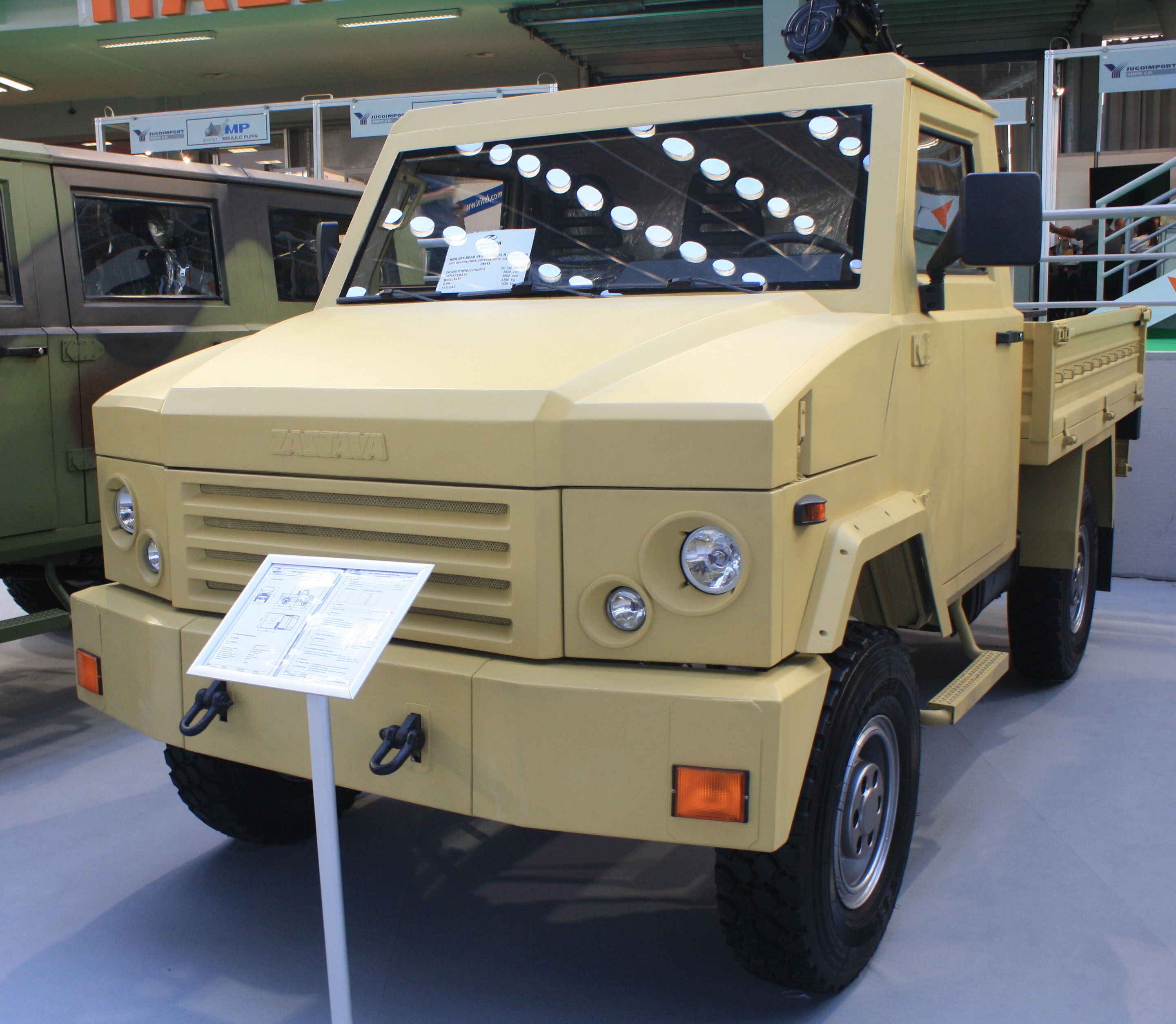 New military truck from Zastava Trucks, NTV 40.13H in 2+1 configuration with mounted armament on display at Partner 2013 military fair.